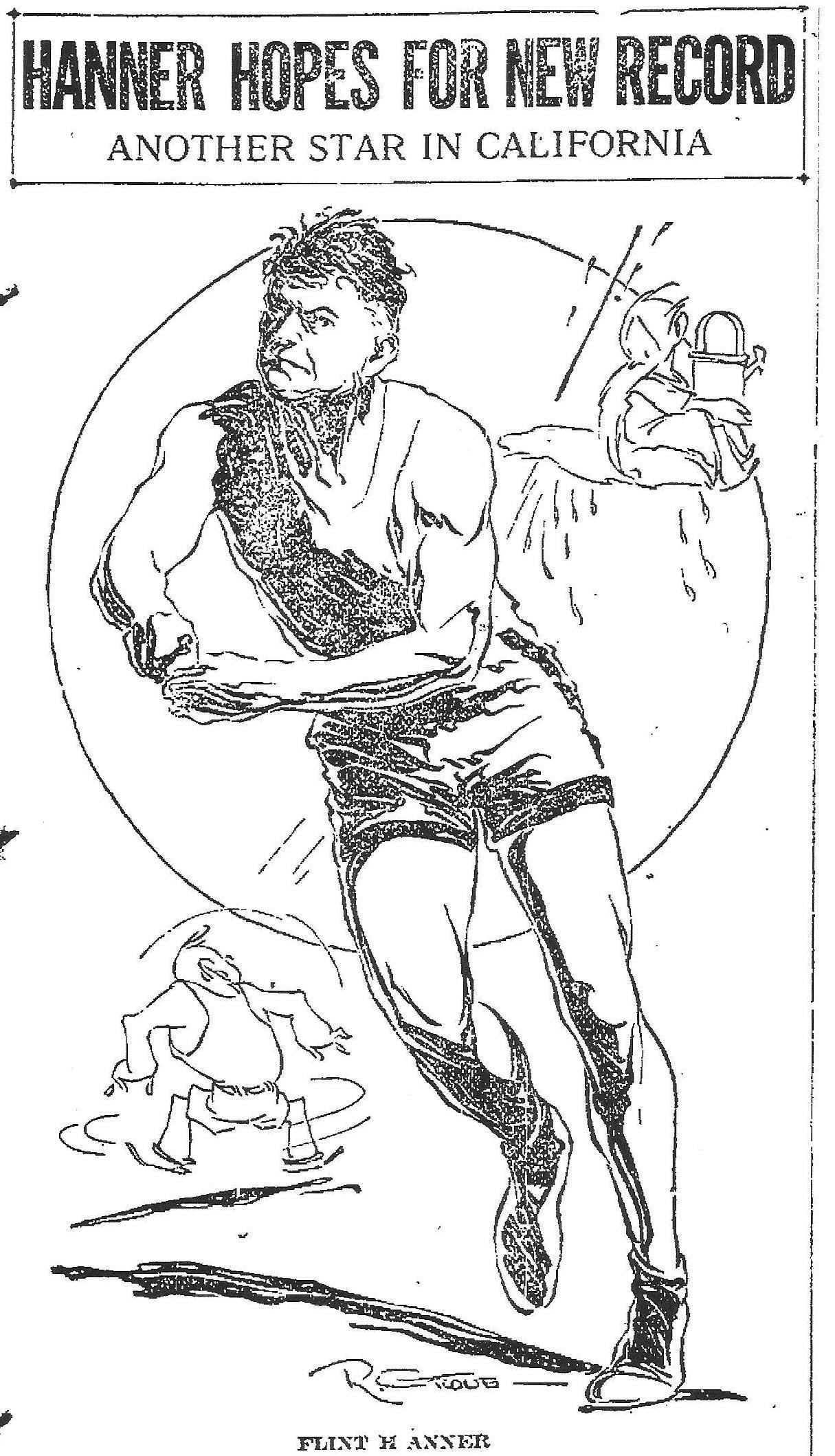 Image of Flint Hanner